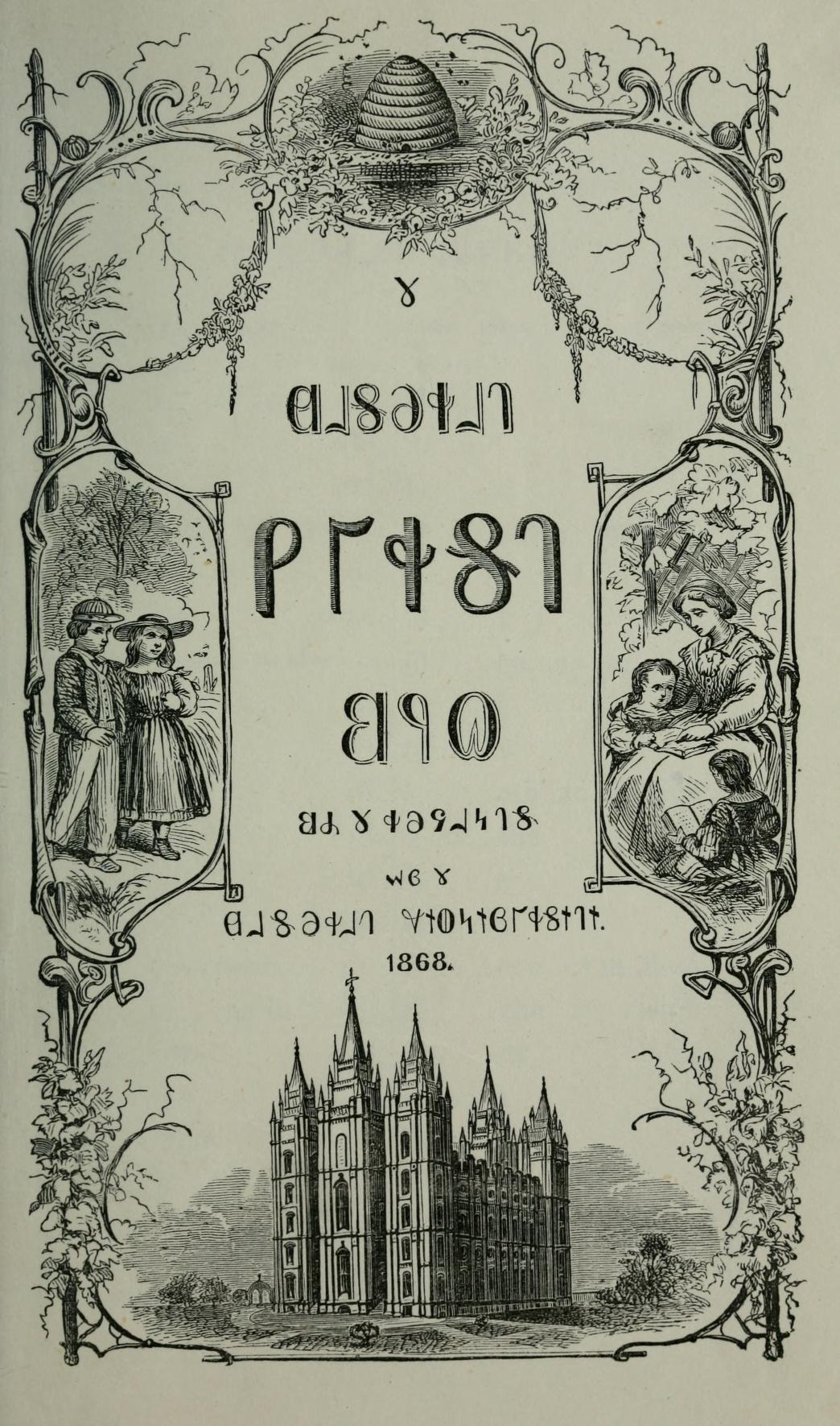 The cover of the Deseret First book. The cover reads: 𐐜 𐐔𐐇𐐝𐐀𐐡𐐇𐐓 𐐙𐐊𐐡𐐝𐐓 𐐒𐐋𐐗 𐐒𐐌 𐐜 𐐡𐐀𐐖𐐇𐐤𐐓𐐝 𐐱𐑂 𐑄 𐐔𐐇𐐝𐐀𐐡𐐇𐐓 𐐏𐐆𐐅𐐤𐐆𐐚𐐊𐐡𐐝𐐆𐐓𐐆 1868. THE DESERET FIRST BOOK BY THE REGENTS of the DESERET UNIVERSITY 1868.